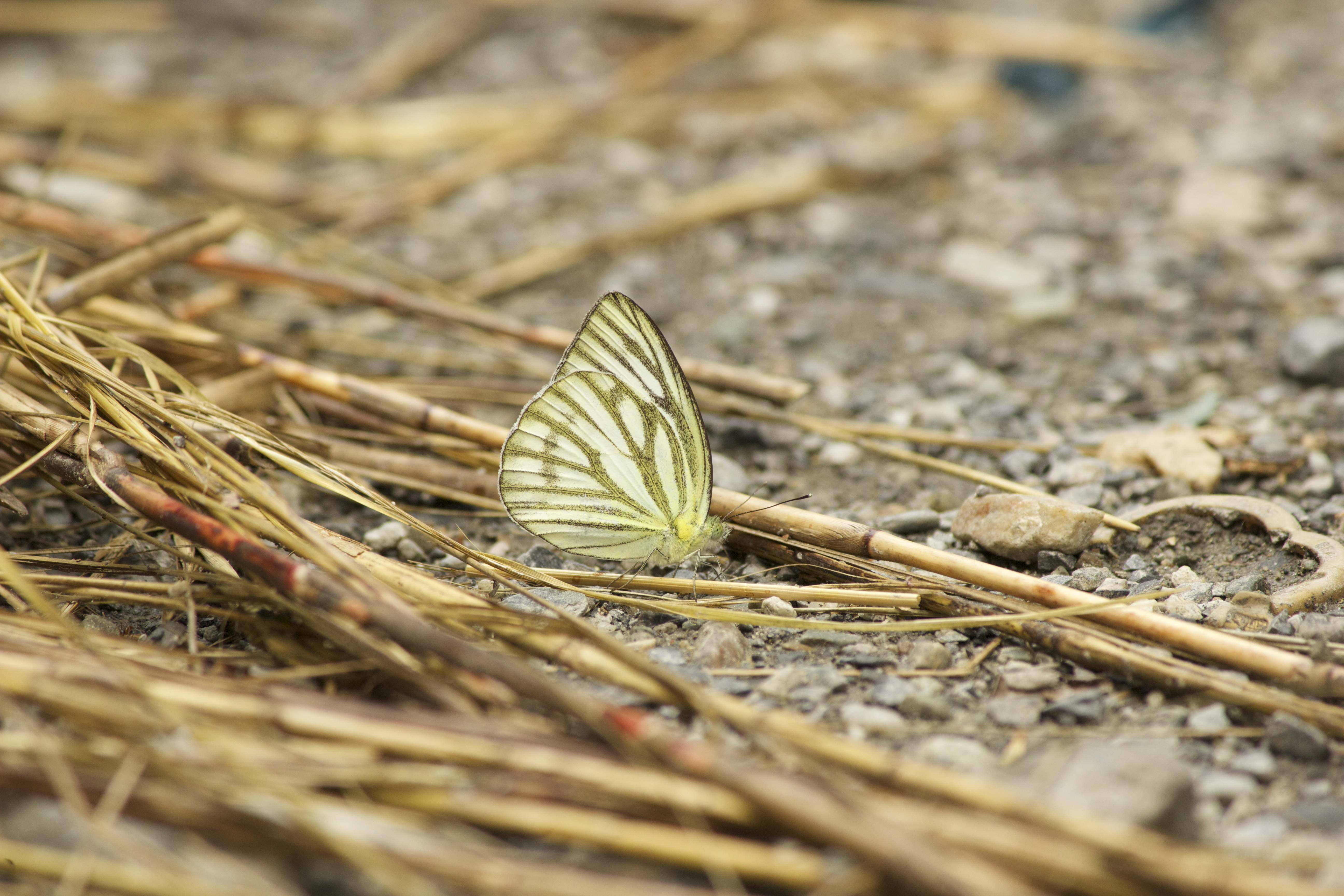 This picture was taken during the project Wiki Loves Butterfly in Buxa Tiger Reserve, Alipurduar. Close wing position of Cepora nerissa Fabricius, 1775 – Common Gull